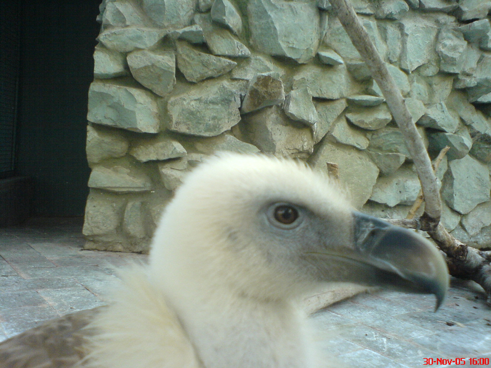 Vulture's Head - Park Mellat - Tehran/Iran